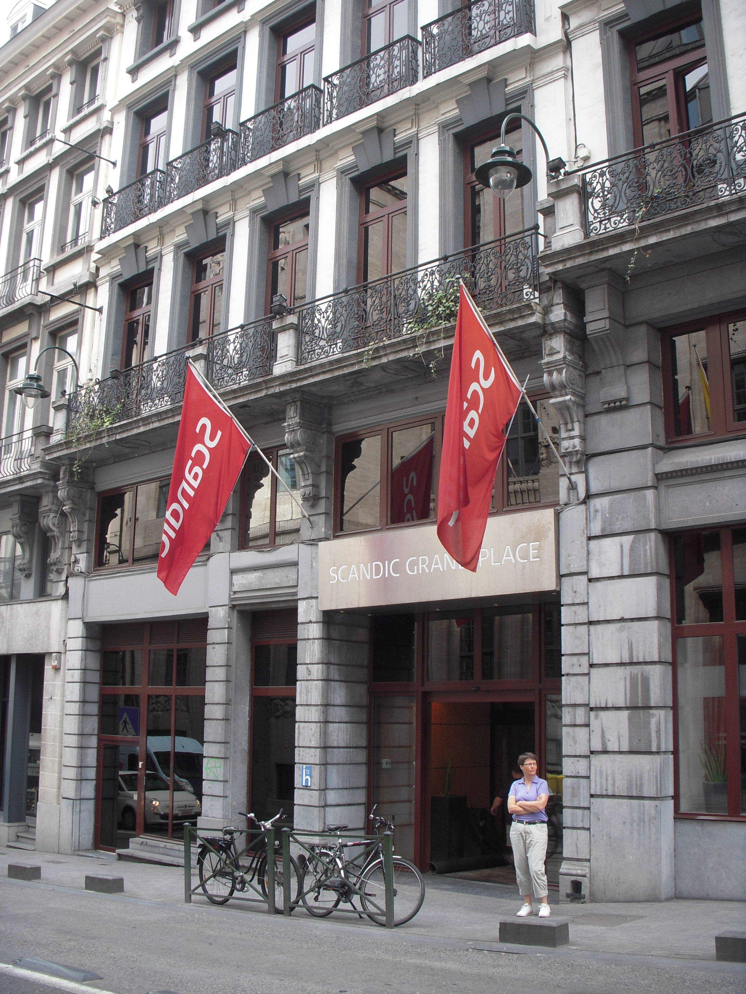 Scandic Hotel "Grand Place" in Brussels. July 19, 2011